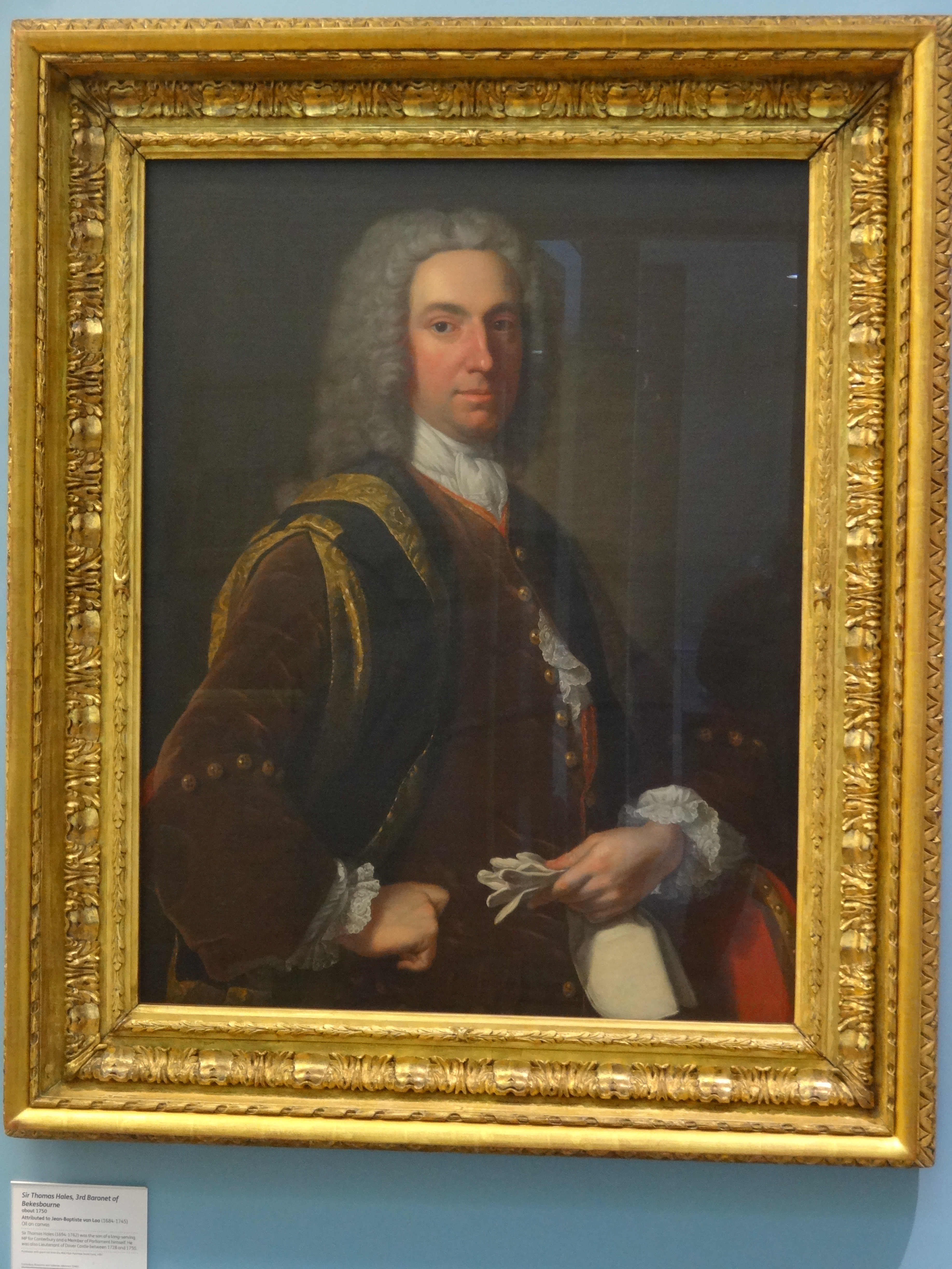 Thomas Hales attributed to Jean-Baptiste van Loo, Beaney Institute